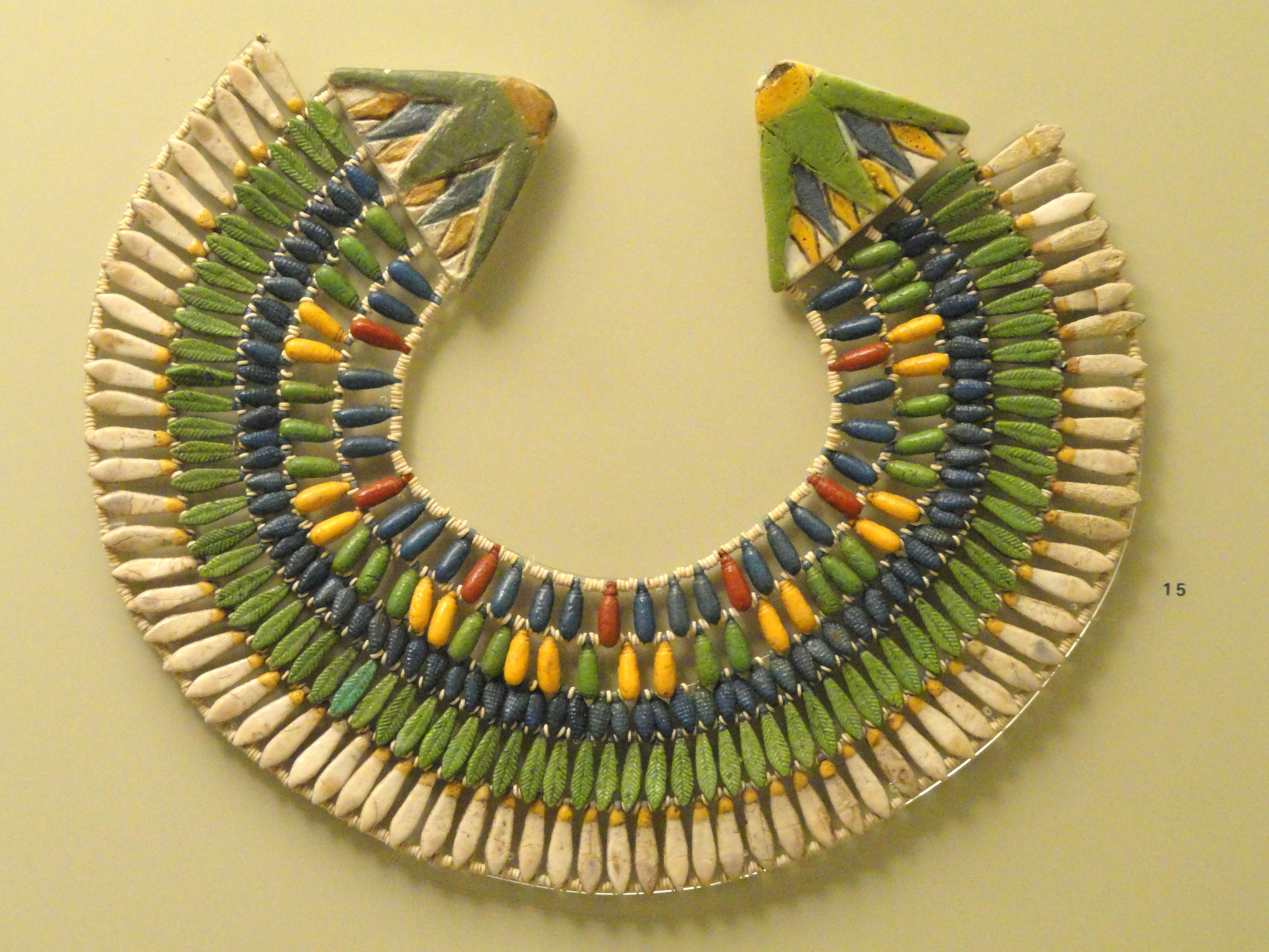 Exhibit in the Royal Ontario Museum, Toronto, Ontario, Canada. This exhibit is old enough so that it is in the public domain, and photography was permitted in the museum. I took this photograph and release it into the public domain.